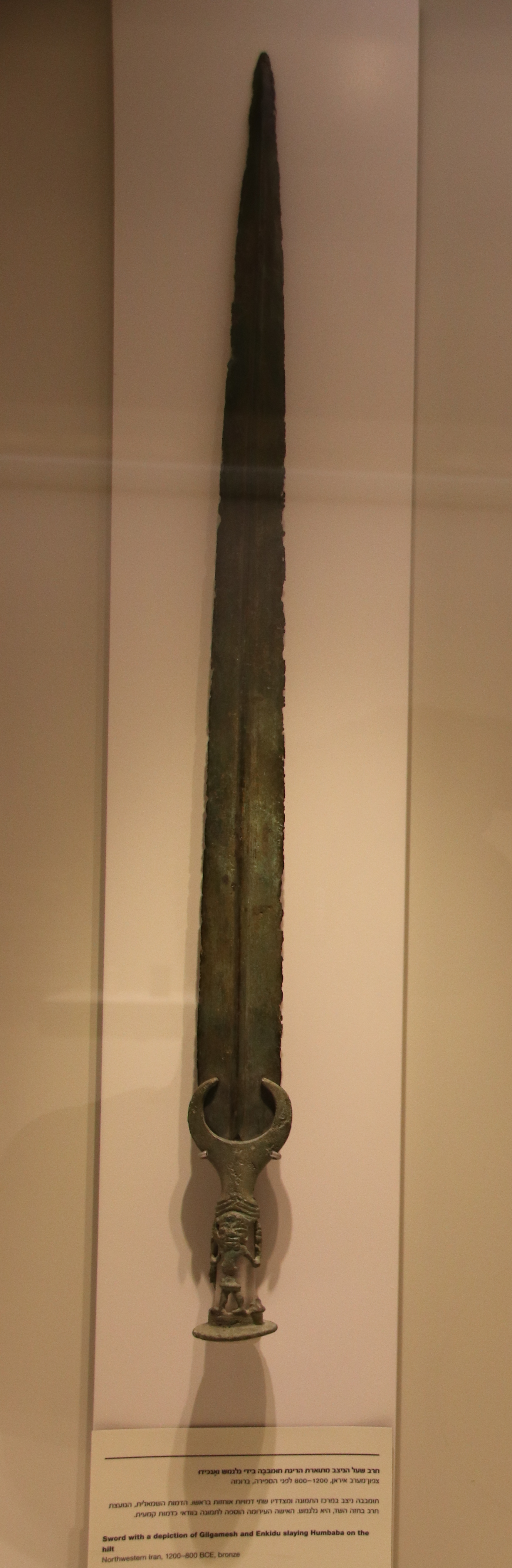 Israel Museum, Jerusalem, Israel. Complete indexed photo collection at